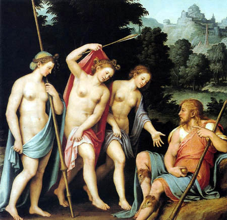 Judgement of Paris